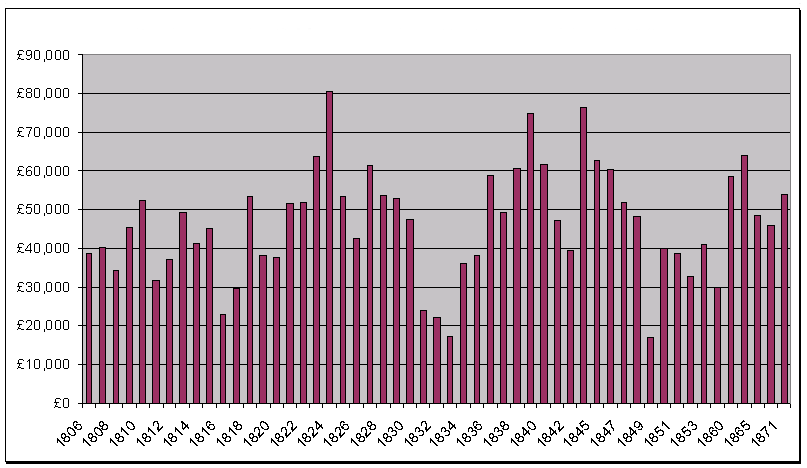 Chart showing the value of trade carried on the Bridgewater Canal between 1806 and 1871. Data from Mather, F. A. (1970). After the Canal Duke. Oxford: Oxford University Press, pp. 358–359.